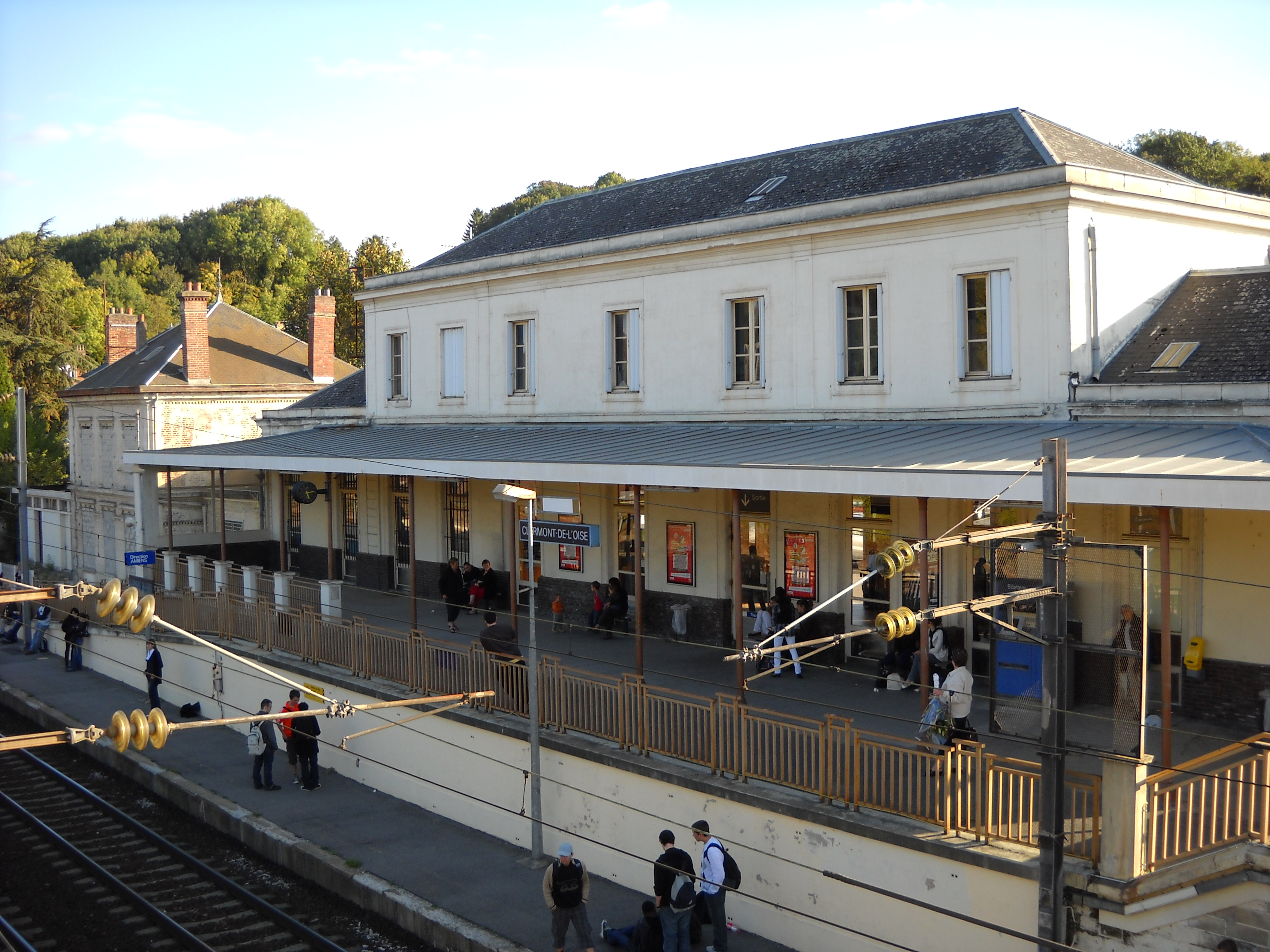 The train station of Clermont, Oise, France.